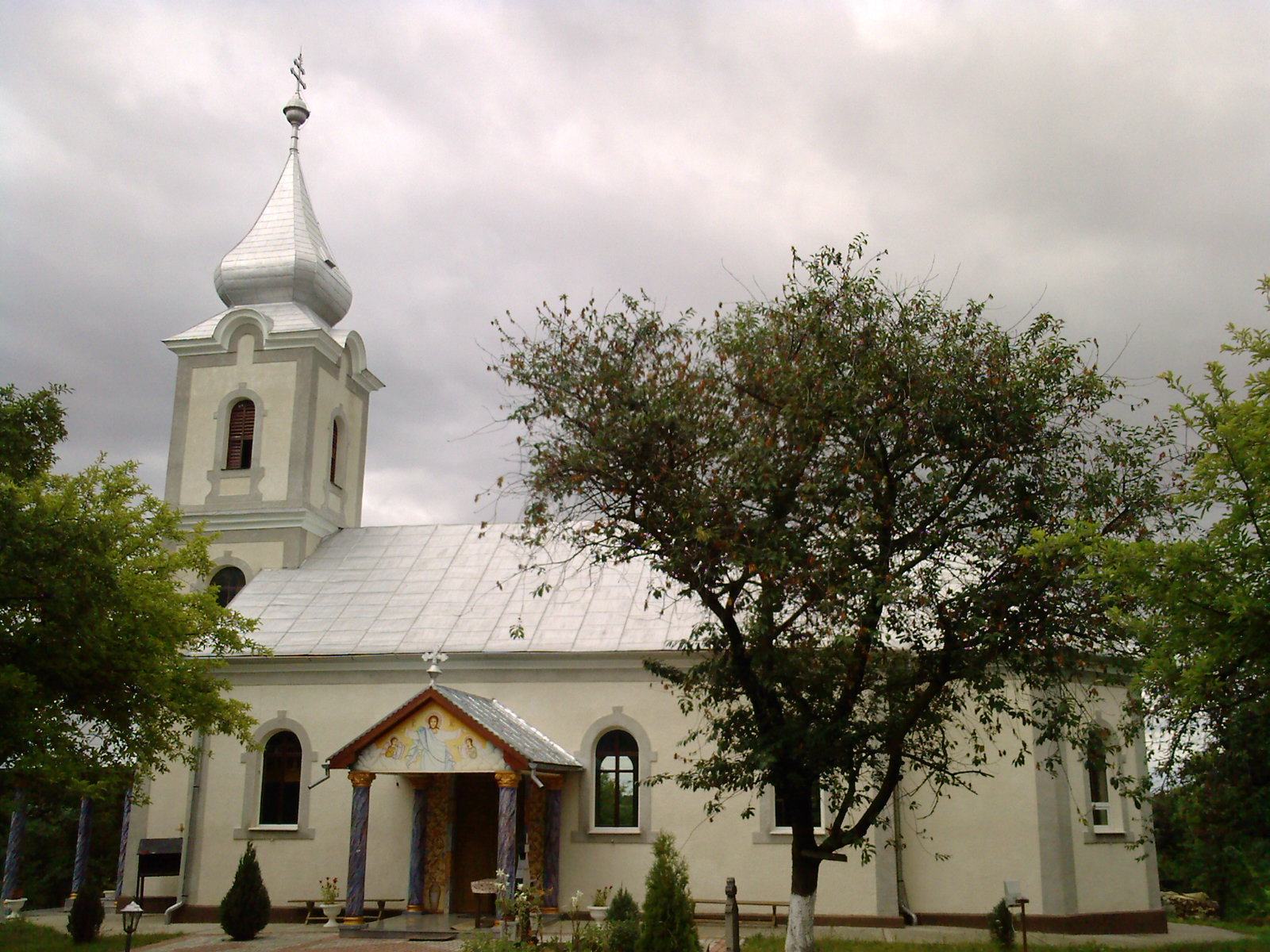 Orthodox Church, Aghires, Sălaj County, Romania